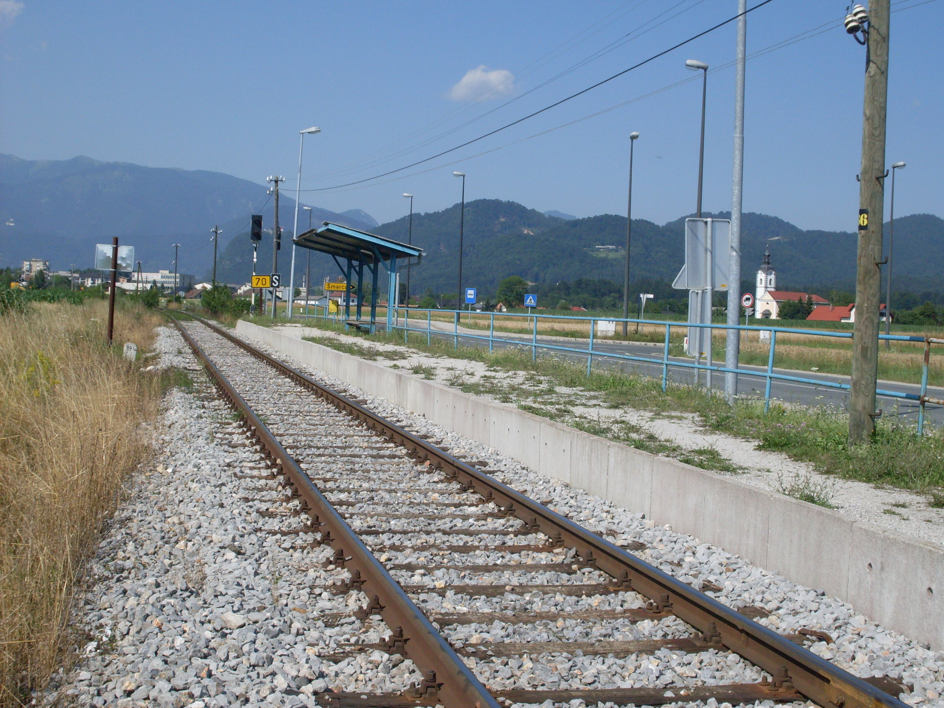 Railway halt in Šmarca, Slovenia